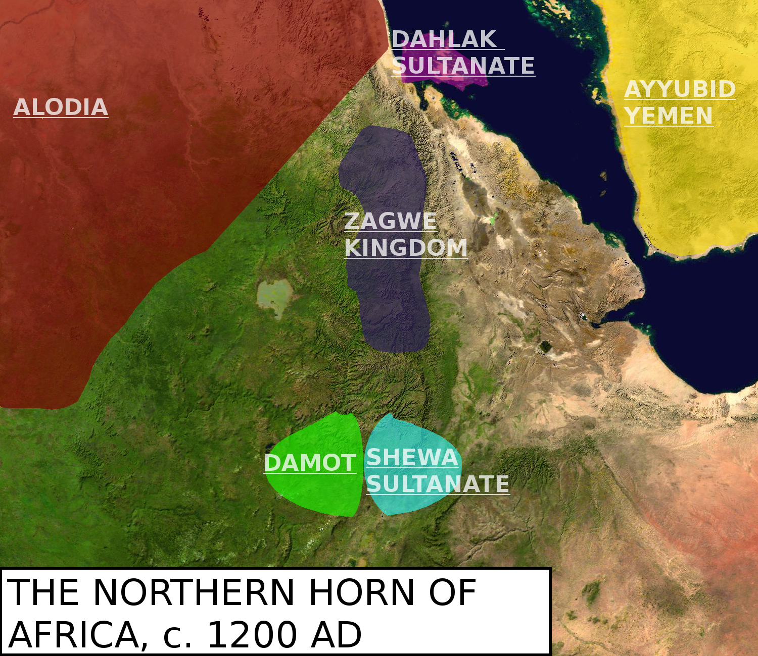 Map showing the northern Horn around the year 1200. Original map is called File:Africa_satellite_plane.jpg. Sources used: Encyclopedia Aethiopia Volume 2 and 5, Mohi Zarroug's "Kingdom of Alwa" and Ayda Bouanga's "Le Damot dans l'histoire de l'Ethiopie (XIIIe-XXe siecles)".